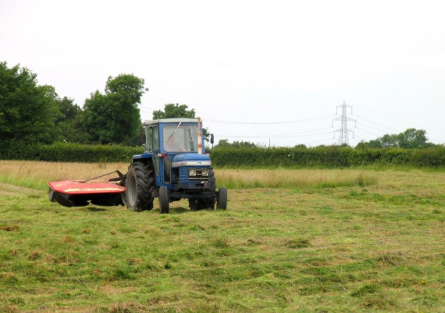 Friendly tractor at work. The tractor stopped work and came to see why photographs were being taken!